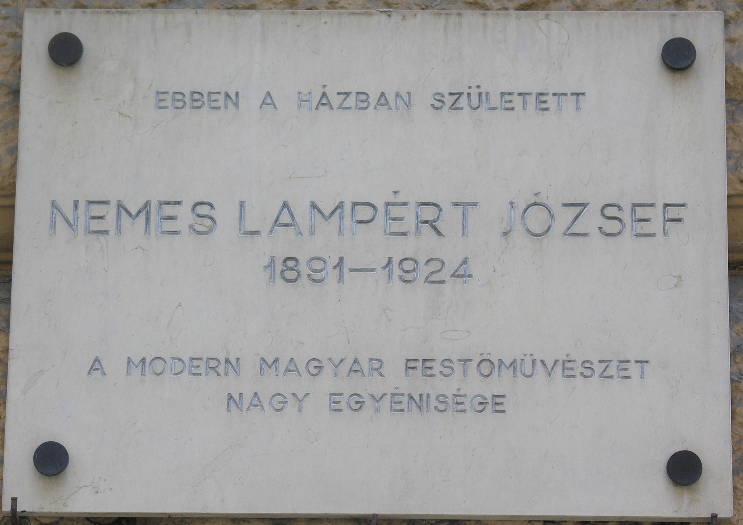 Commemorative plaque of József Nemes-Lampérth in Budapest District V, Alkotmány Street No 9-11